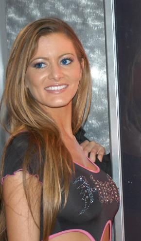 Holly Weber at the 2007 AVN Adult Entertainment Expo in Las Vegas.